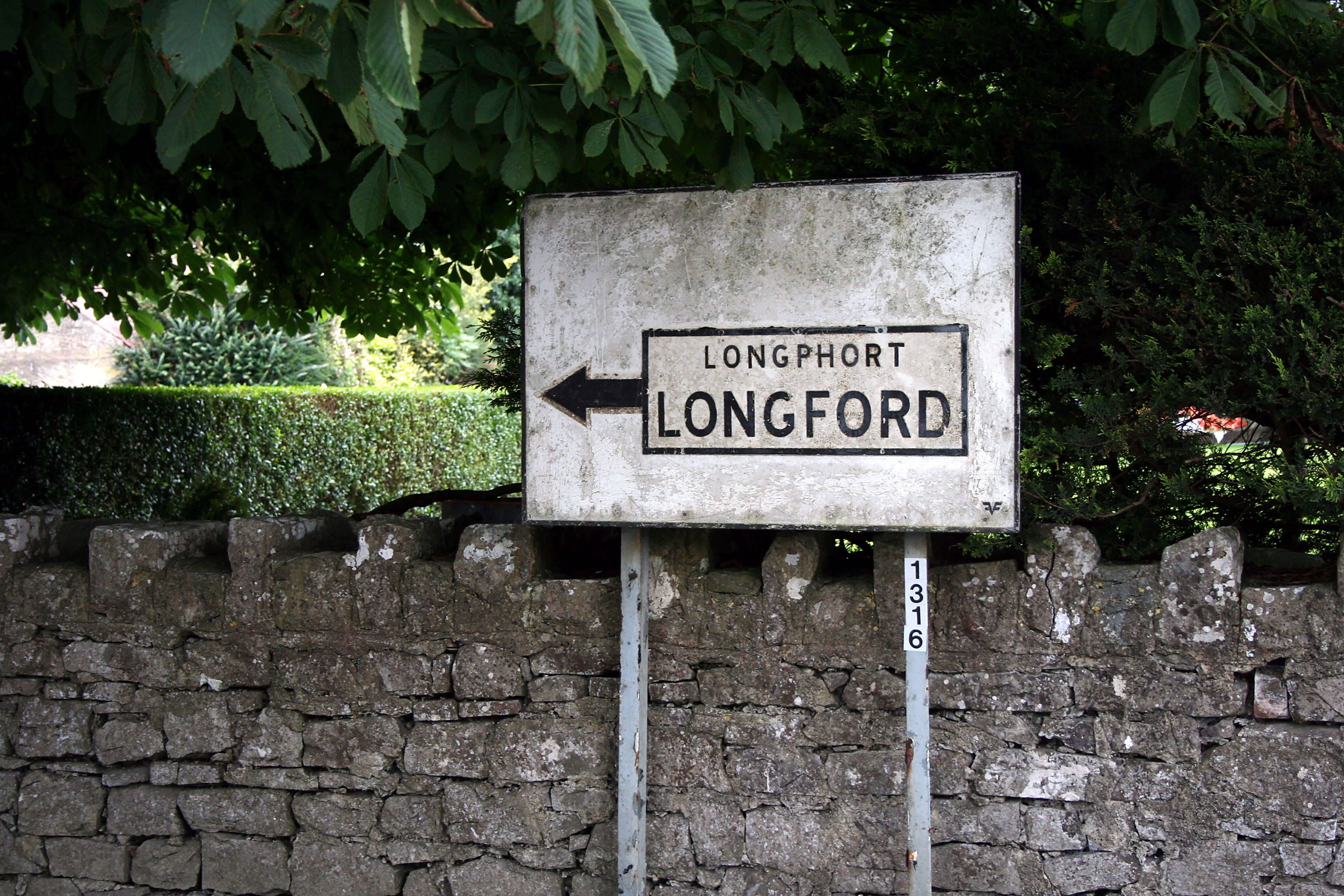 Old direction sign at Kilashee, County Longford on the N63 road.